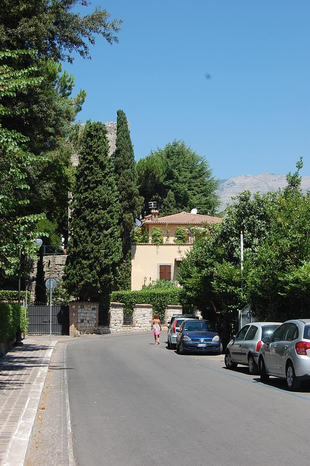 "Villa Fanali" Scauri di Minturno, Latina (Italy)